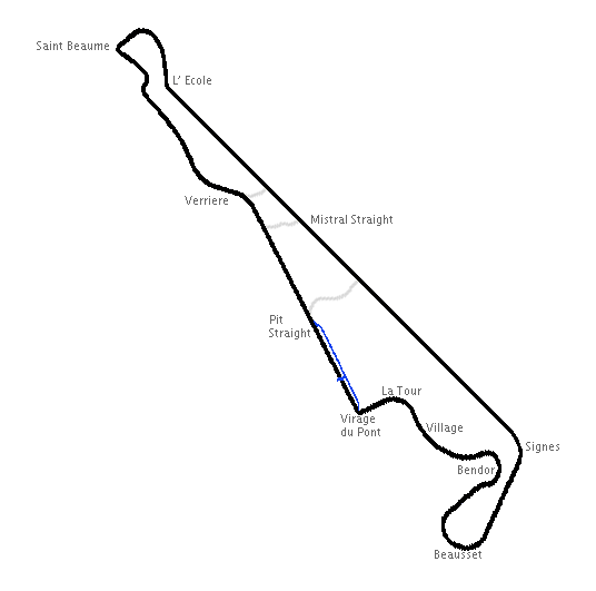 The Circuit Paul Ricard from 1970 to 1999.